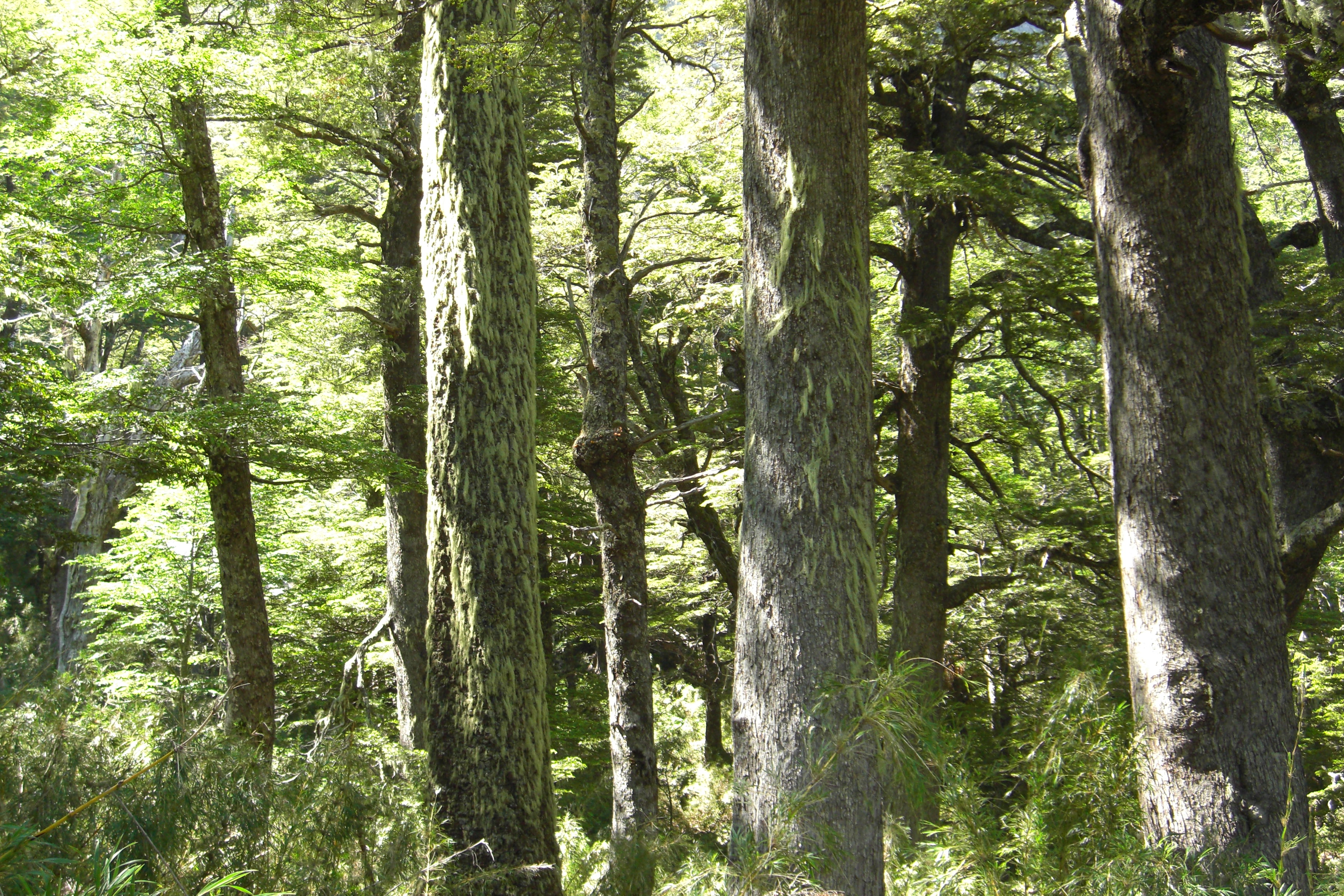 I´ve been calling this type of high, almost sub-alpine, forest "cloud forest" due to the conspicuous overwhelming presence of hair lichens draping every surface. (In this case an Usnea species, but in North America it would be the functionally equivalent though unrelated Ramalina thrausta and Alectoria sarmentosa.) This lichen is a clear indicator of frequent occurance of mist or fog. In this case, likely due to frequent occurrance of fog from mist rising from lakes in the morning, and sinking clouds in the late afternoon originating in incompletely formed thunder heads. (Something I saw several times in the few days I was there.)